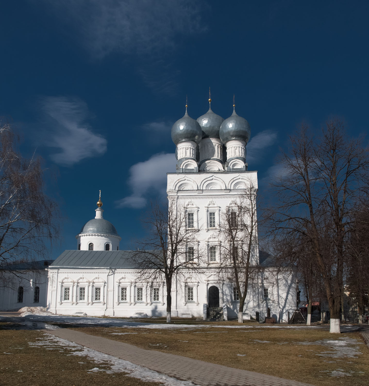 Cathedral of Archangel Michael in Bronnitsy, Moscow Oblast